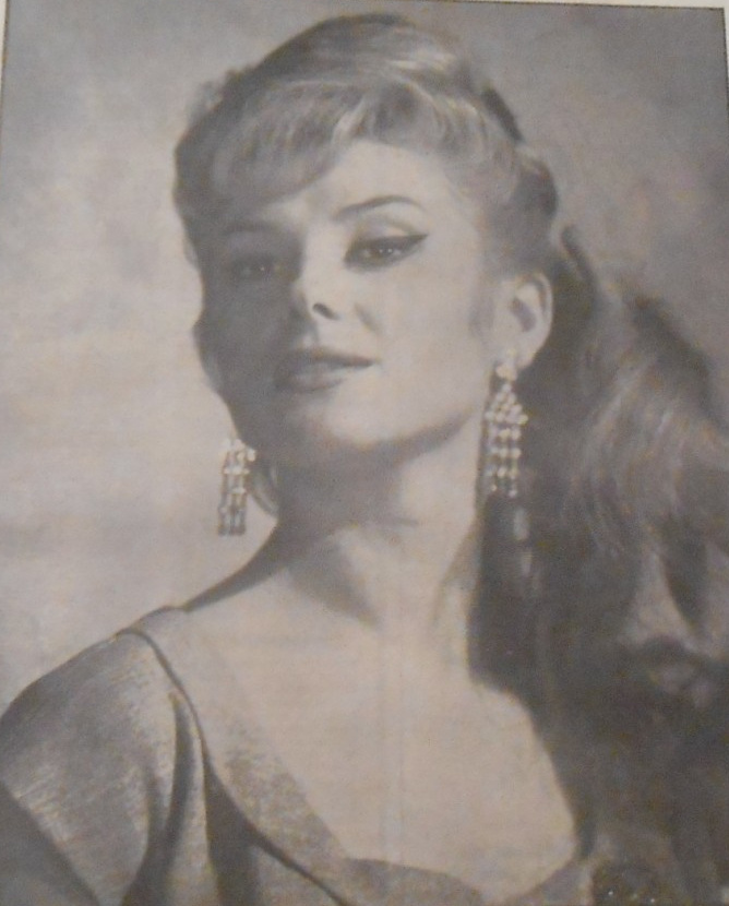 Irena Prosen, Ilustrovana politika